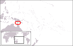 Location map for the Torres Strait.